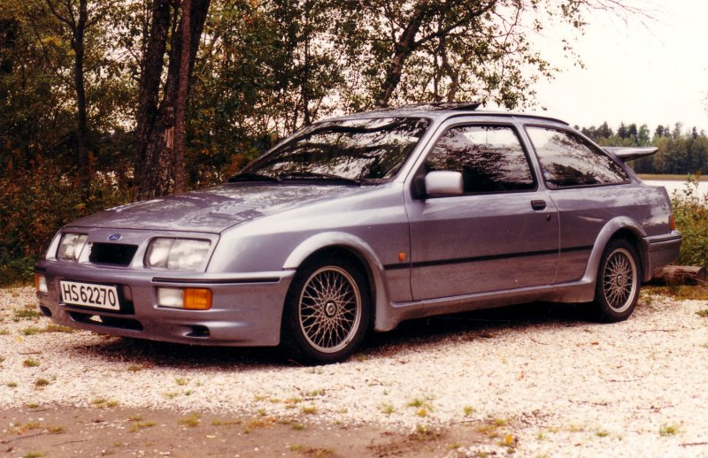 Ford Sierra RS Cosworth 1986 in Moonstone blue, photographed at Lundebyvannet, Norway.